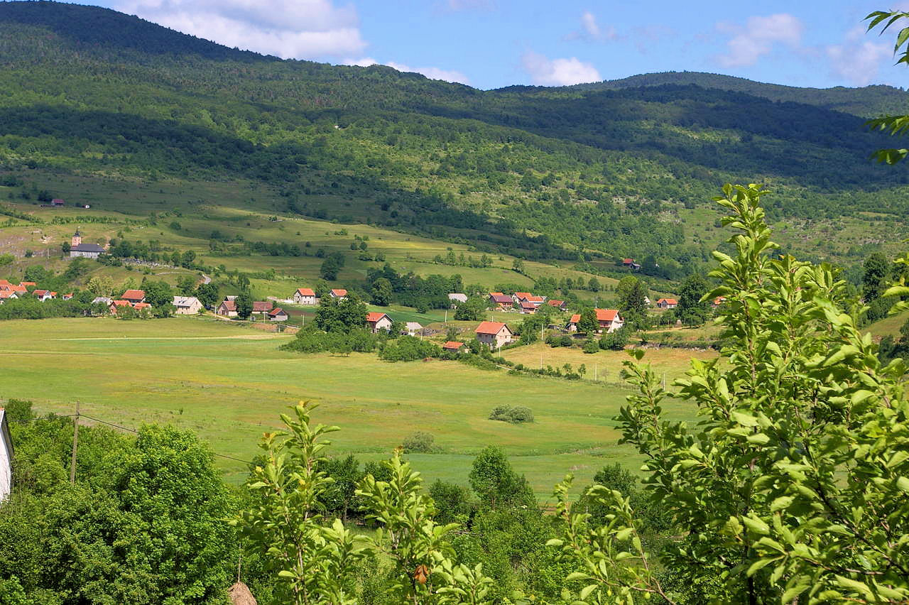 Center with Catholic Church.